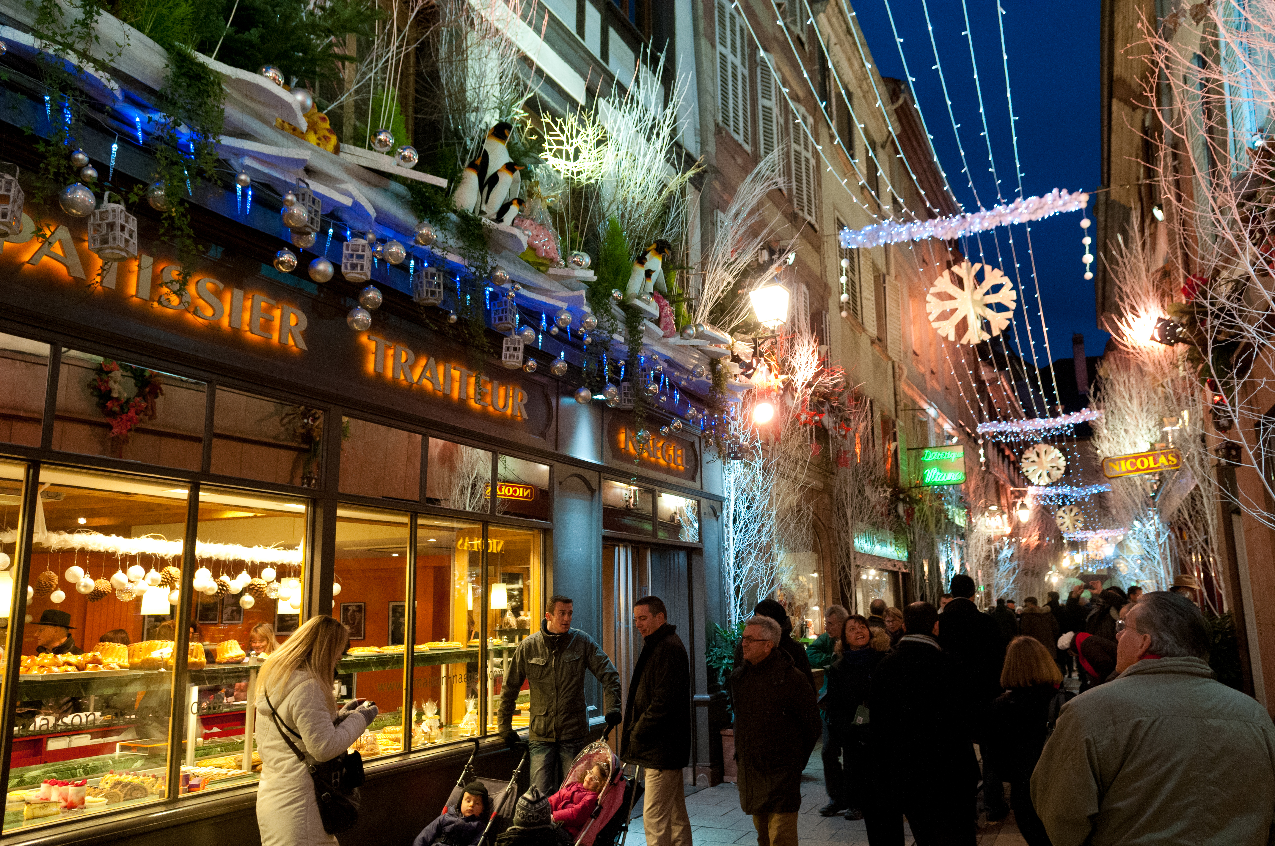 Christmas Fair in Strasbourg